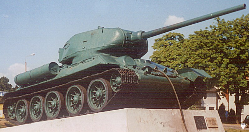 T-34/85 in Wejherowo, Poland